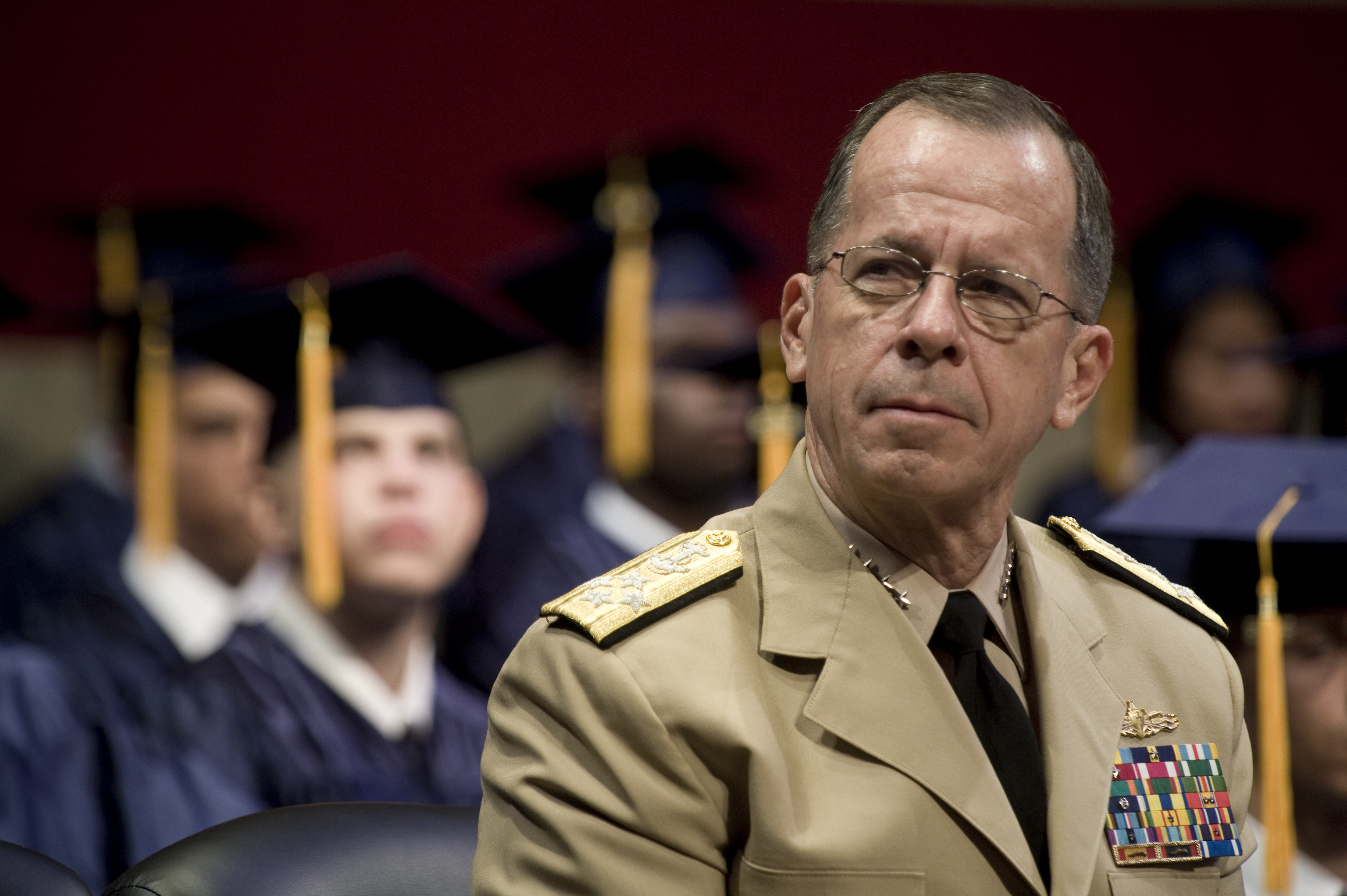 U.S. Navy Adm. Mike Mullen, chairman of the Joint Chiefs of Staff, addresses graduates of the New Jersey National Guard Youth Challenge Academy at their graduation in Trenton, N.J